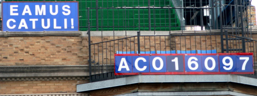 Jennifer Golbeck (me) took this picture at Wrigley Field. 20:44, 18 June 2006 . . Golbeck . .1024 x 227 (64,766 bytes)